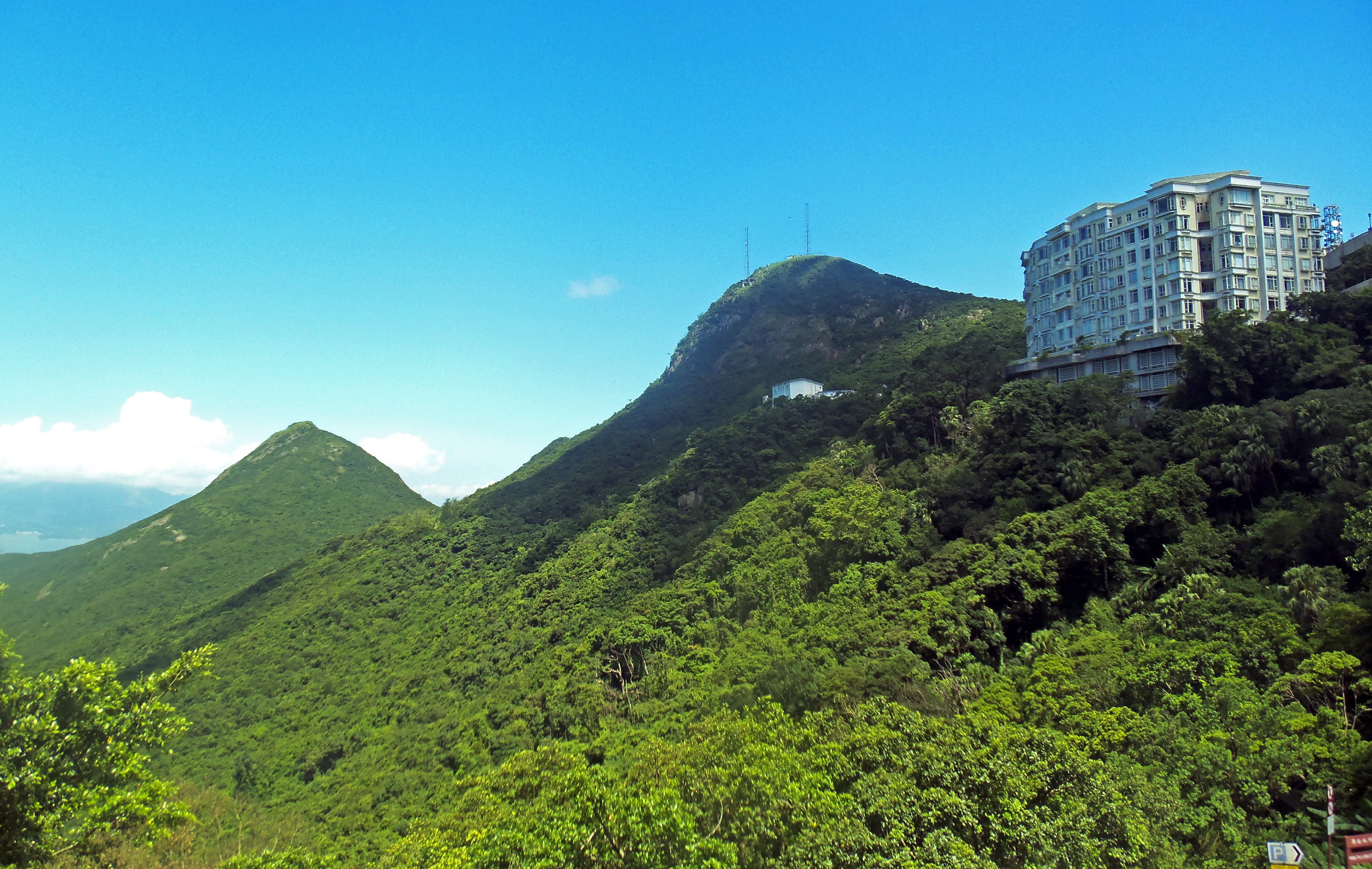 High West and Victoria Peak from Victoria Gap, Hong Kong